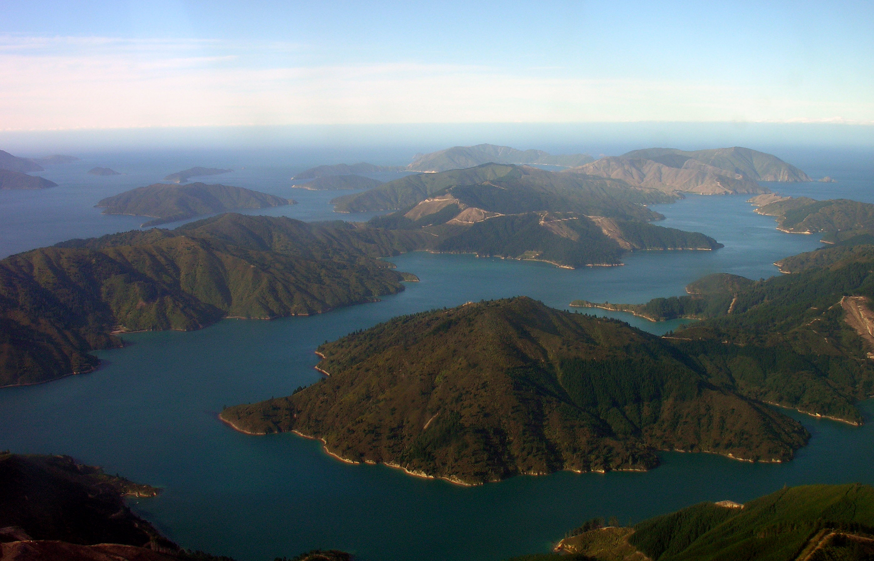 The image shows Tory Channel, a mayor arm of Queen Charlotte Sound, Marlborough Sounds, South Island, New Zealand